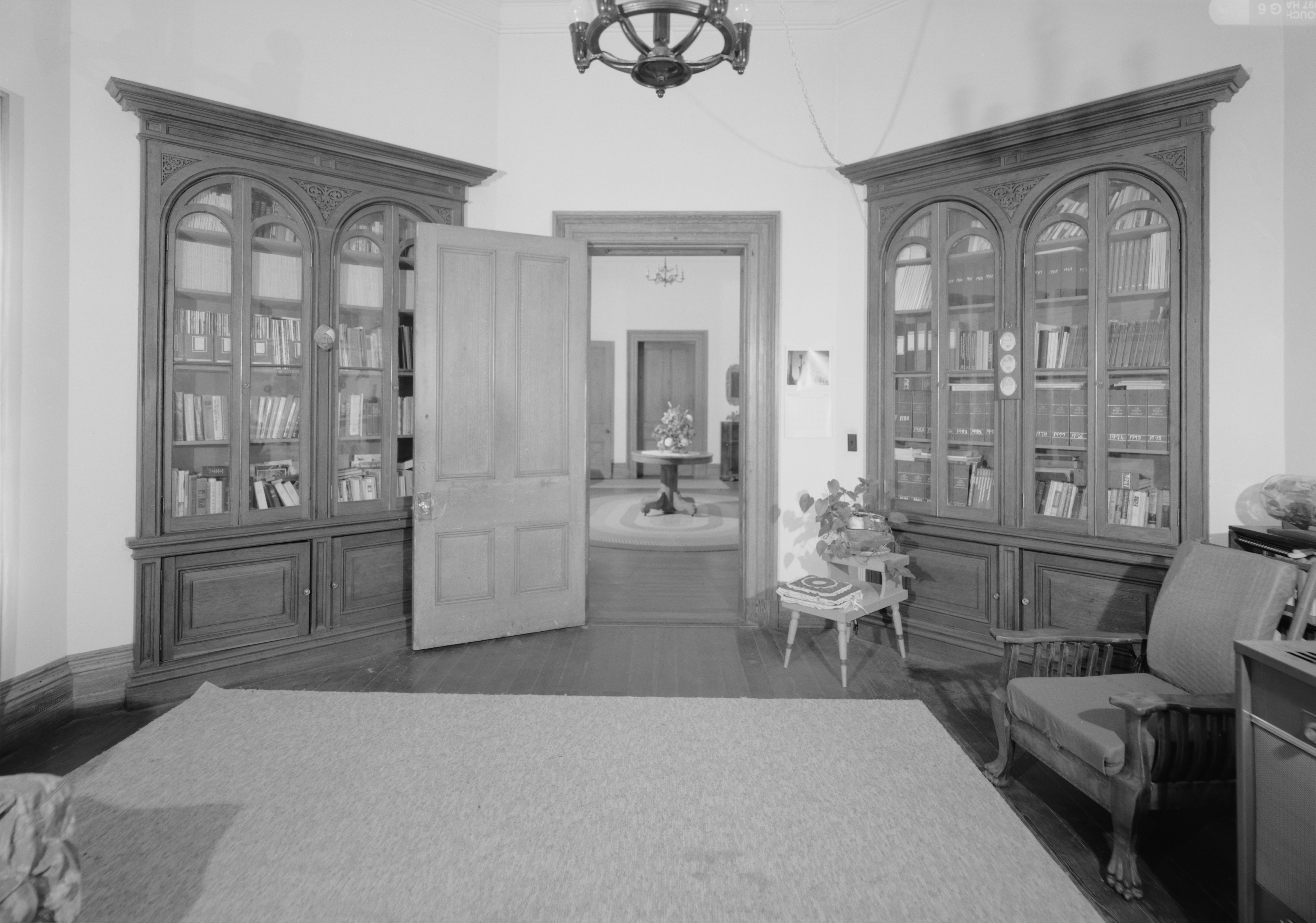 Kenworthy Hall, State Highway 14 (Greensboro Road), Marion, Perry County, AL. INTERIOR VIEW, LIBRARY LOOKING EAST TO WEST INTO THE CROSS HALL.